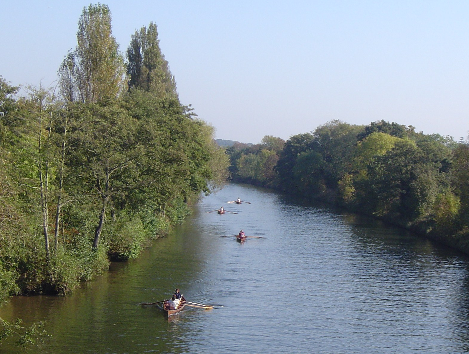 Skiff Marathon - Desborough Cut River Thames